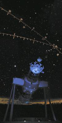 Camera